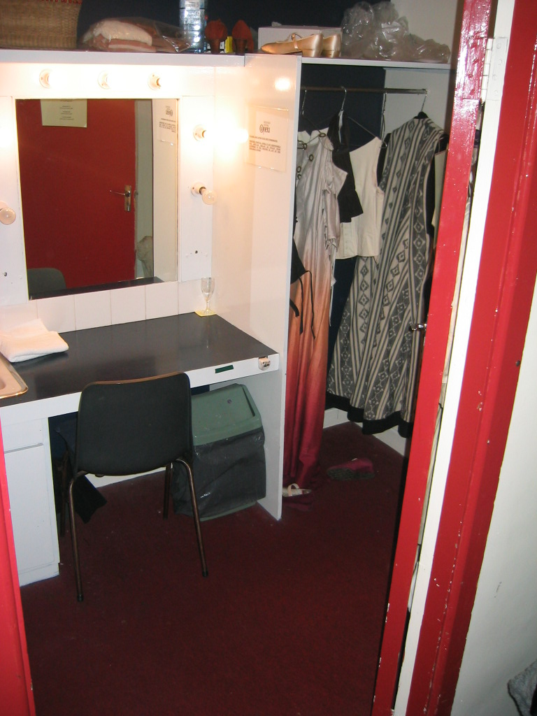 Dressing room, Theatre Royal, Wexford, Ireland